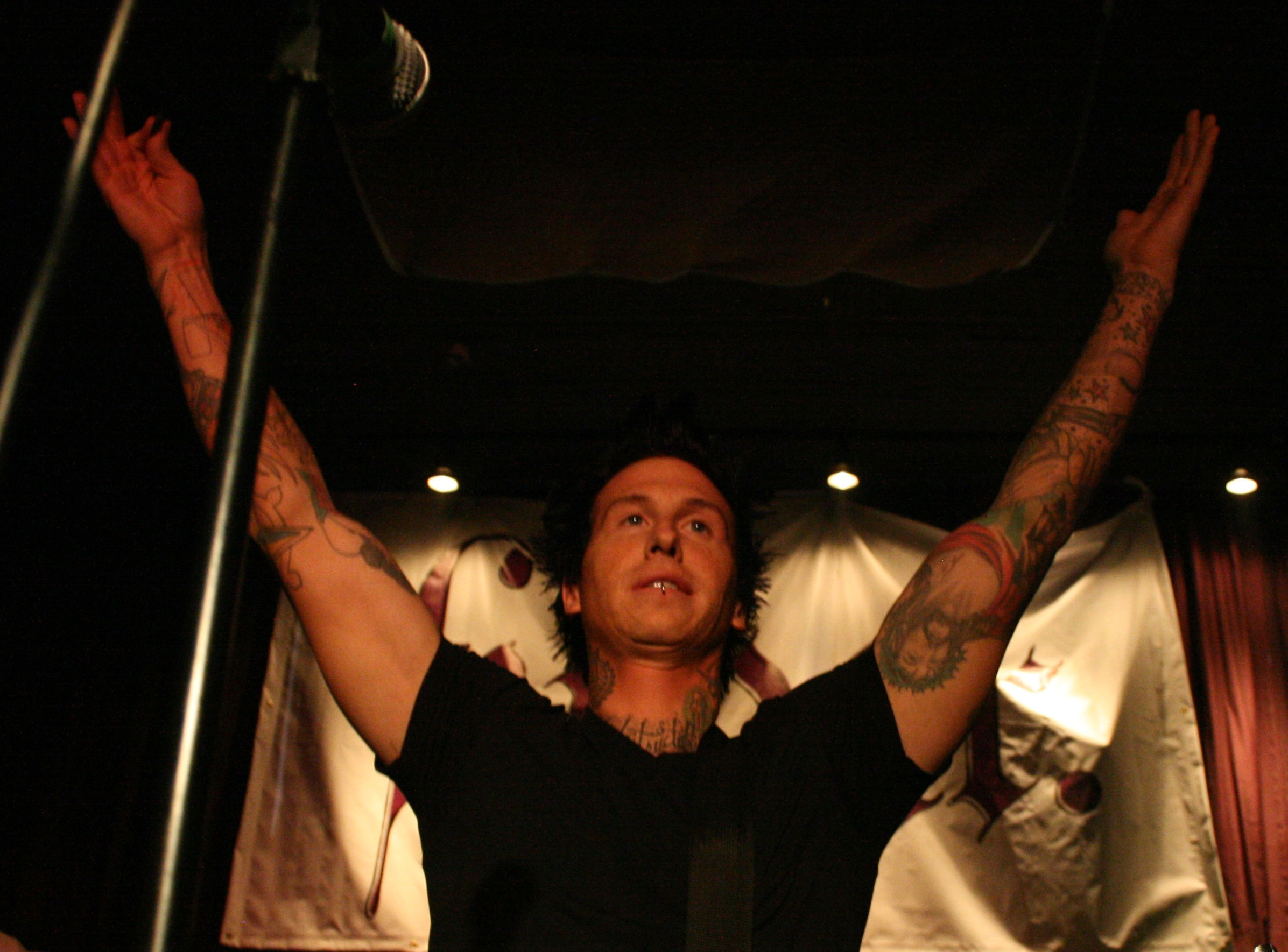 Tony Lovato performing in 2008